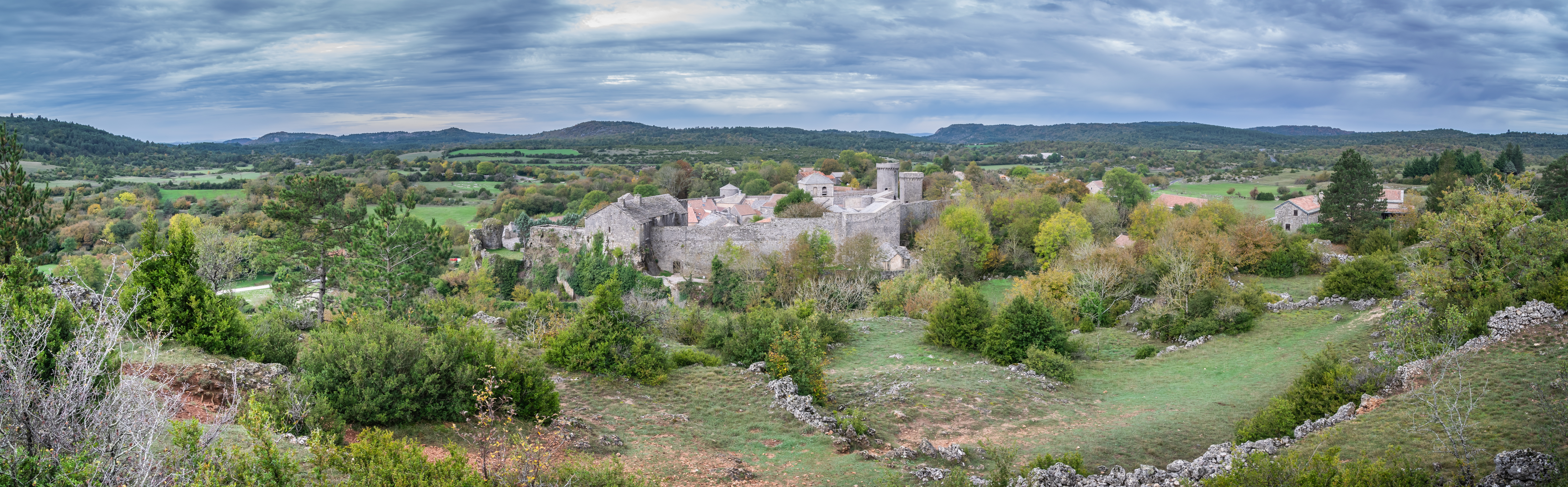 Panoramic view of La Couvertoirade, Aveyron, France